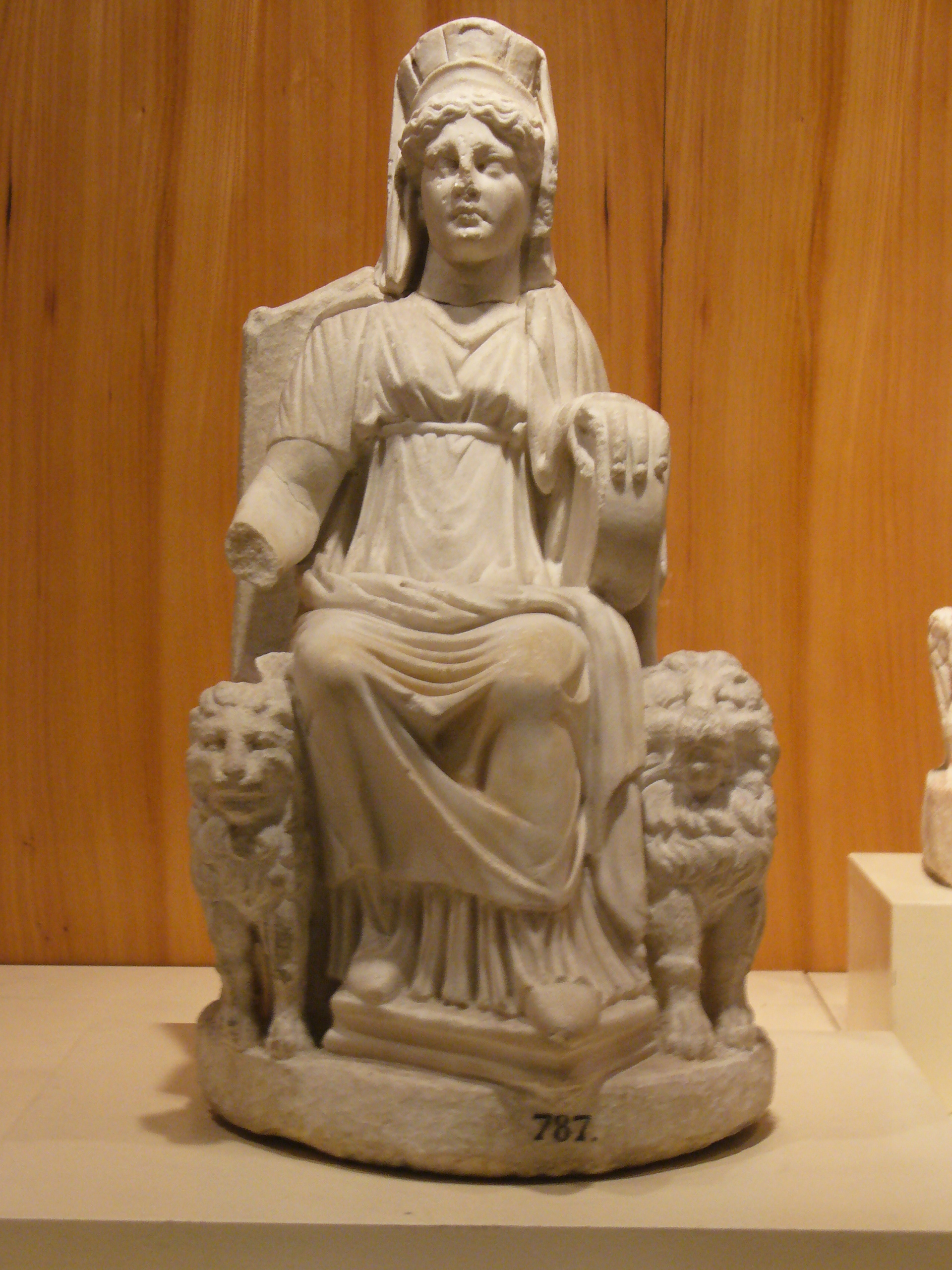 A representation of the Great Goddess, Cybele, from Nicaea in Bithynia. Now at the İstanbul Archaeological Museum. QuartierLatin1968 16:45, 6 December 2006 (UTC)